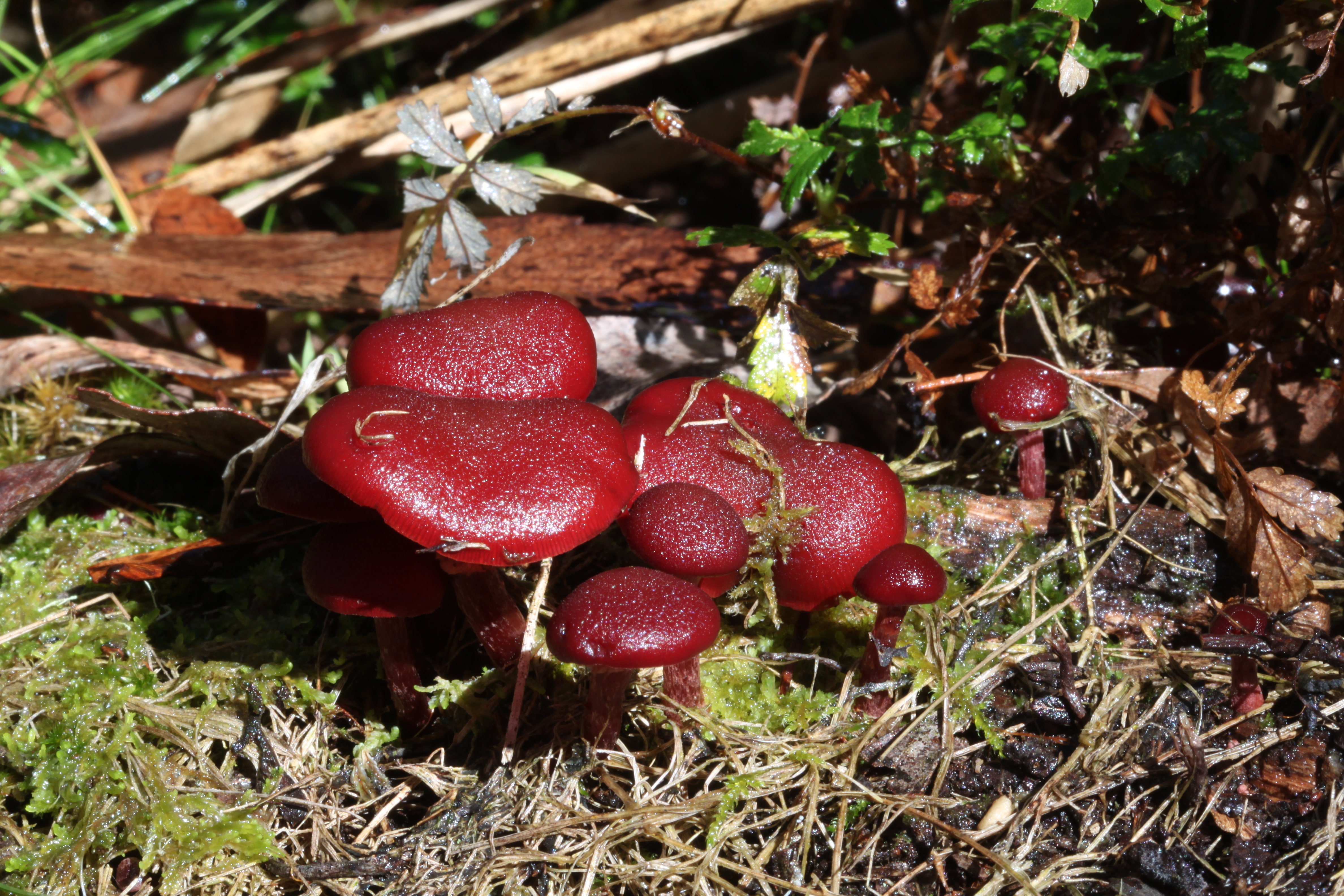 Fruitbodies of the fungus Tubaria rufofulva (Cleland) D.A. Reid & E. Horak; photographed in Bullarto, Victoria, Australia.